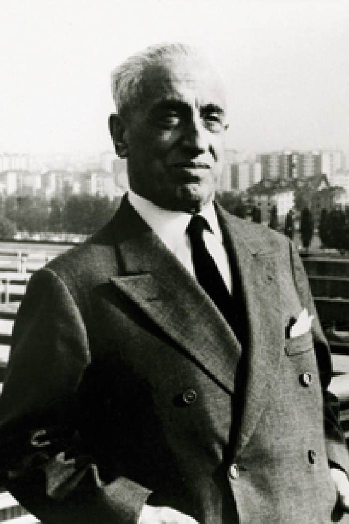 The Italian businessman Vittorio Valletta, chief executive officer and president of FIAT, in the very first years following the end of World War II